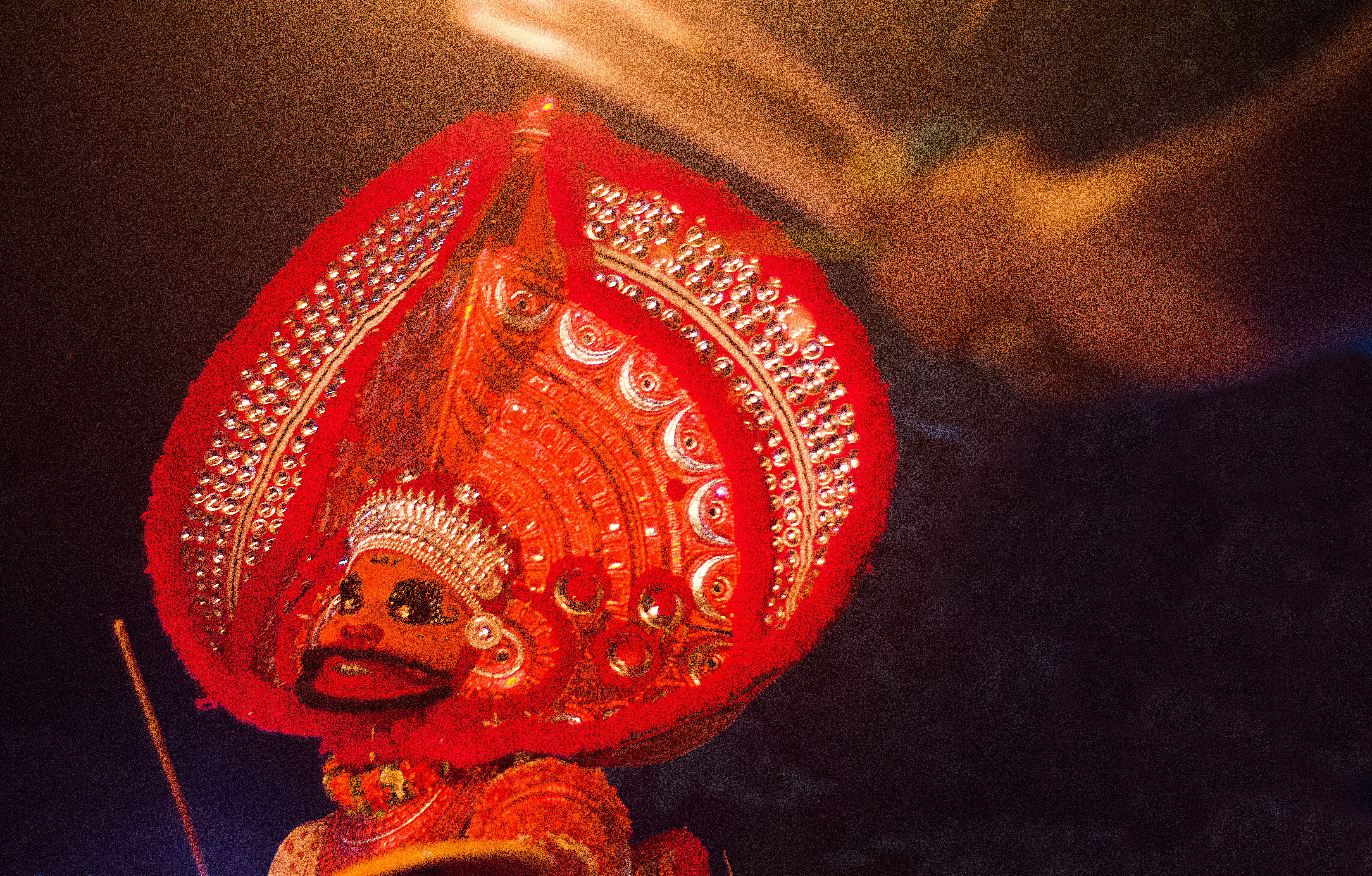 Kurikkal theyyam,often performed alongside Kathivanoor Veeran Theyyam from Eripuram in Kannur District of Kerala,India